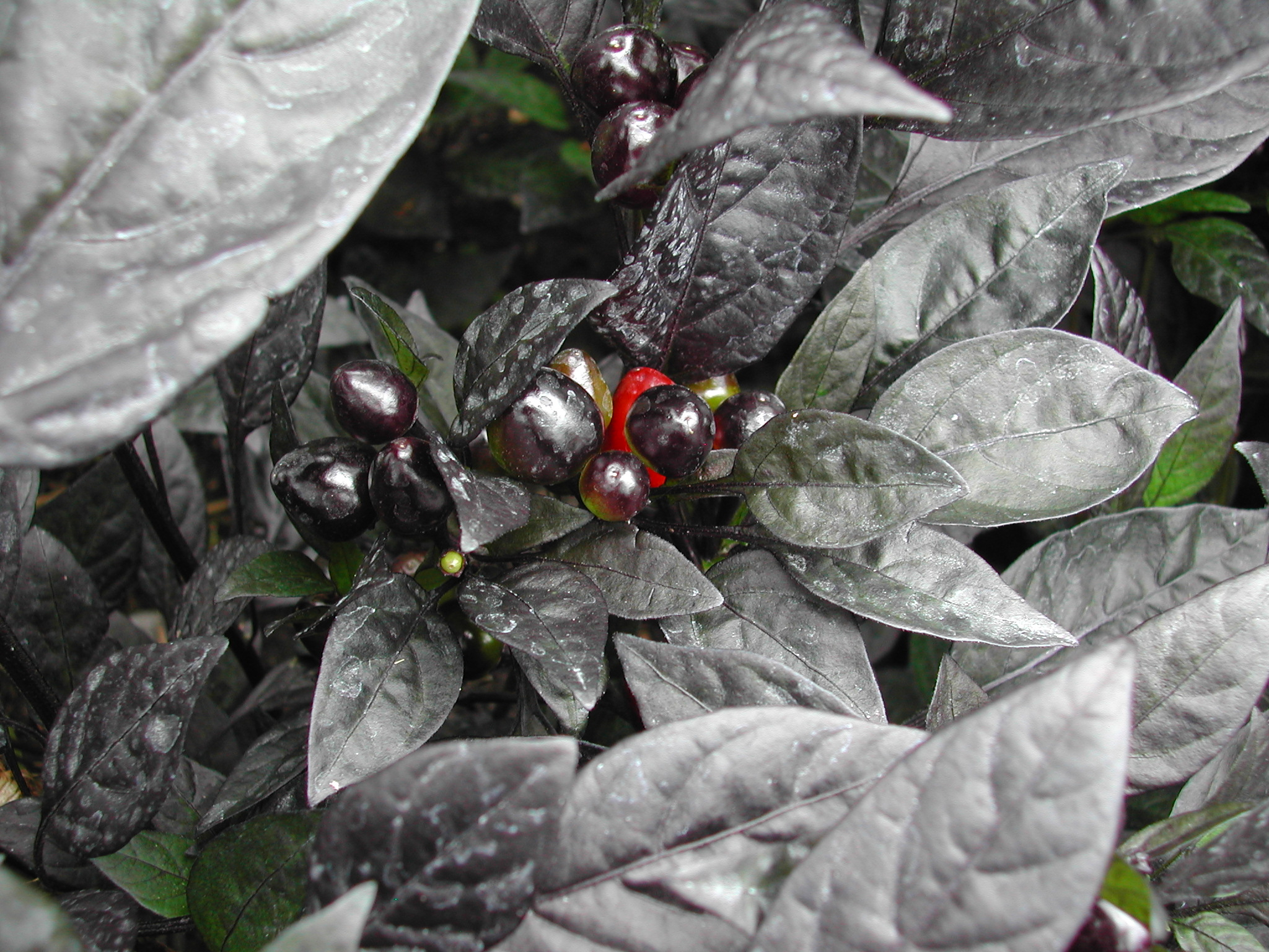 The ornamental chili, Capsicum annuum cv. 'Black Pearl', from the Michigan State University Experimental Garden.